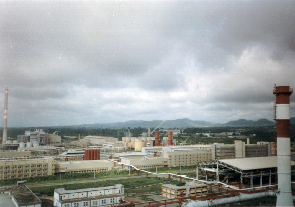 Ajaokuta metal steel factory, 1994.